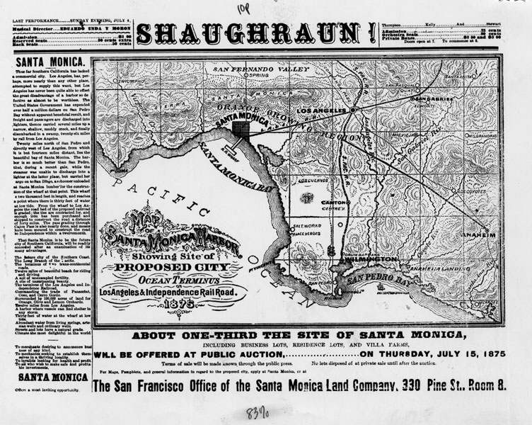 Map of Santa Monica Bay and surrounding land area, prepared to show the site of the proposed city of Santa Monica. The land is to be auctioned on July 15, 1875. The advantages of Santa Monica are listed, particularly the superiority of its harbor over that of San Pedro. Sponsored by the San Francisco Office of the Santa Monica Land Company.